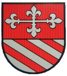 Wappen Oberöfflingen This file depicts the coat of arms of a German Körperschaft des öffentlichen Rechts (corporation governed by public law). According to § 5 Abs. 1 of the German Copyright law, official works like coats of arms are in the public domain. Note: The usage of coats of arms is governed by legal restrictions, independent of the copyright status of the depiction shown here.